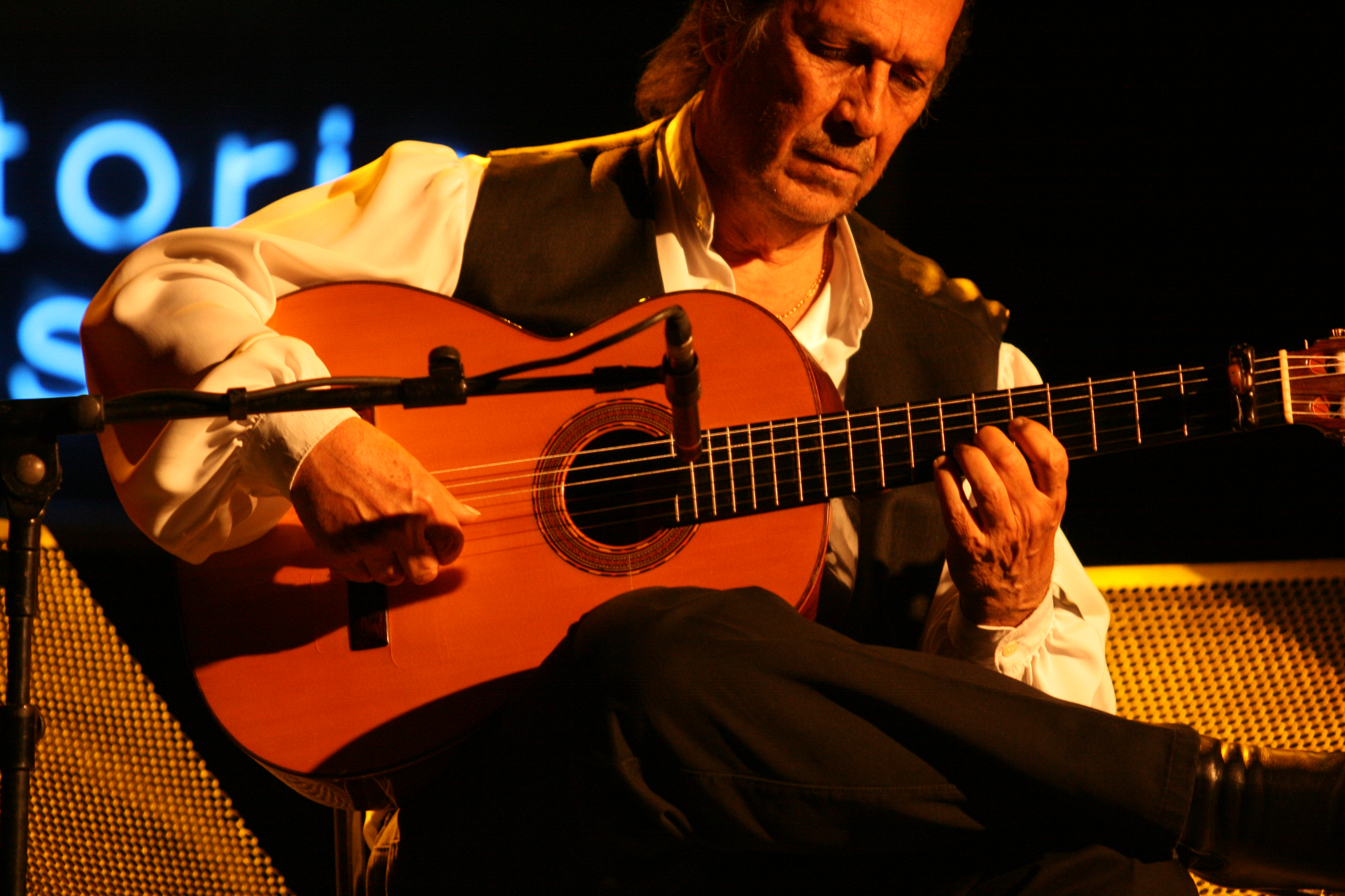 Paco de Lucia at the Vito Jazz Festival in July 2010.